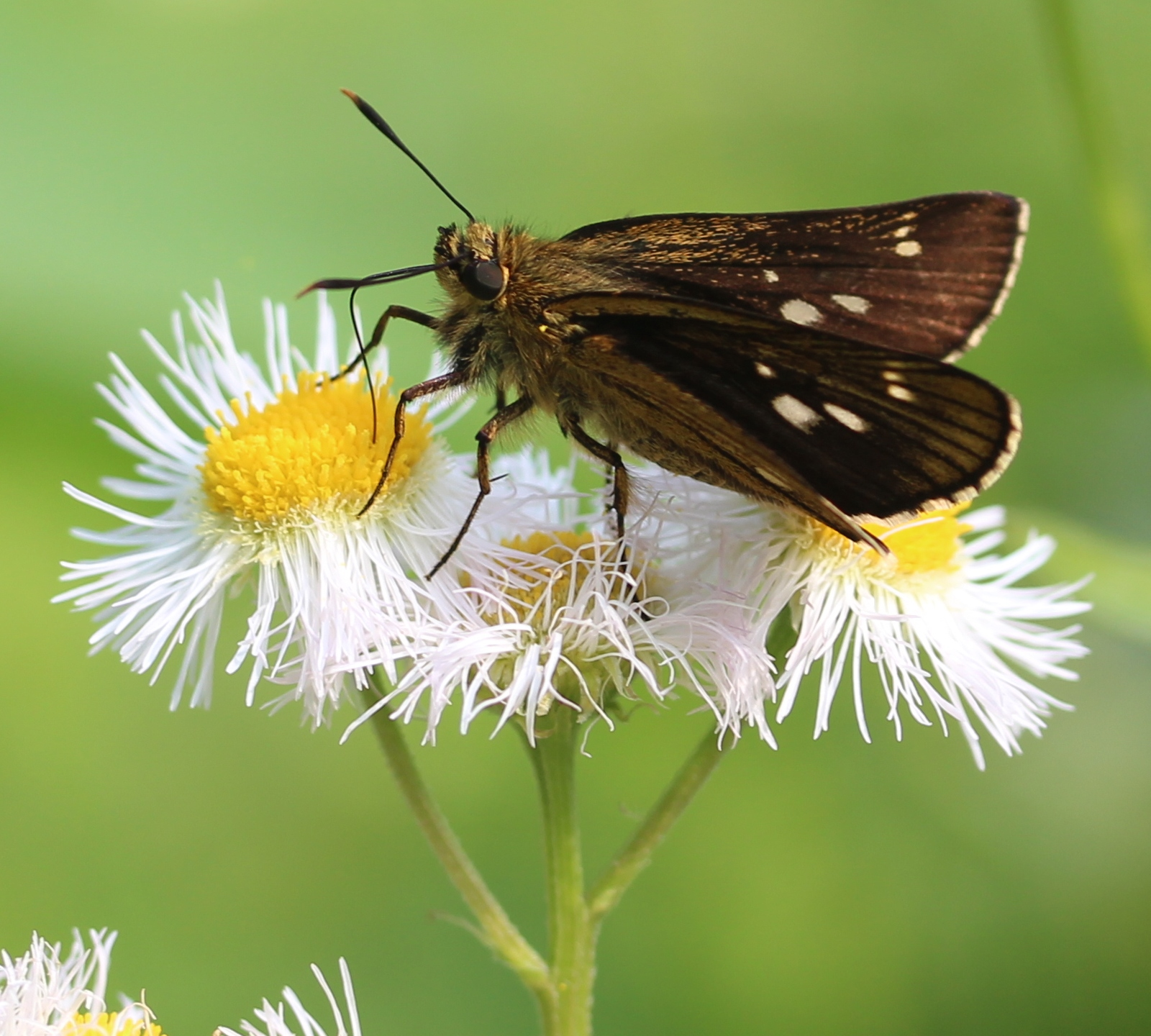 Thoressa varia on Erigeron philadelphicus in Mount Ibuki